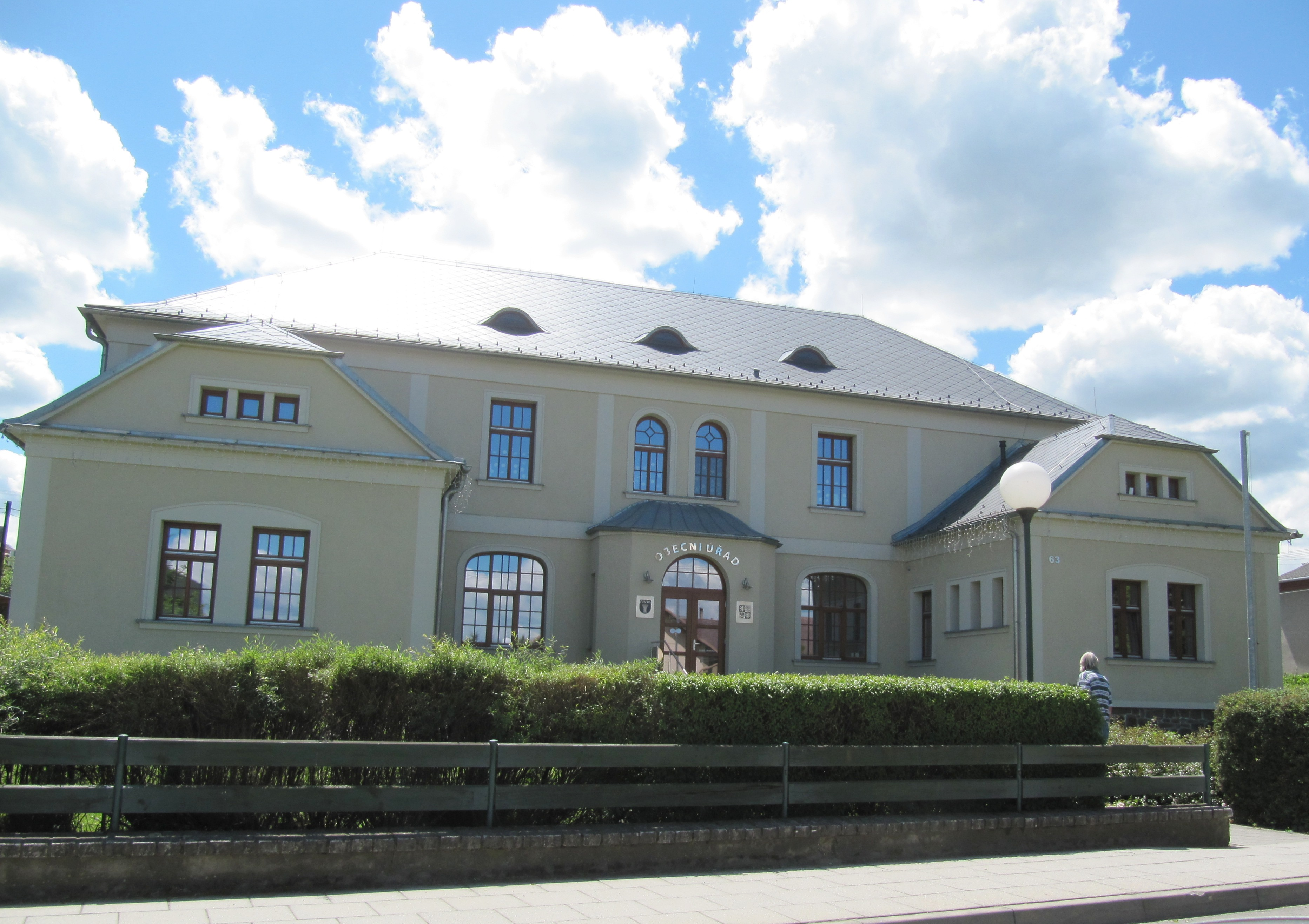 Chvalíkovice, Opava District, Czech Republic.